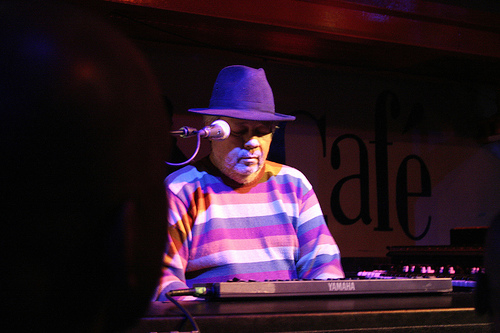 Azymuth live at Jazz Cafe, Camden Town, London.